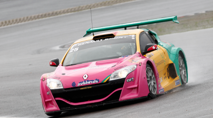 Auto of Stefano COmini